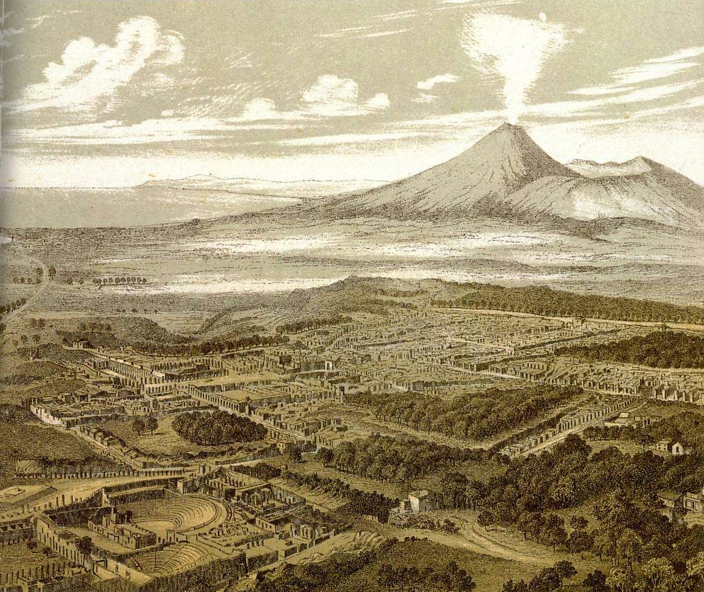 Pompeii from south-west; lithography by Friedrich Federer.